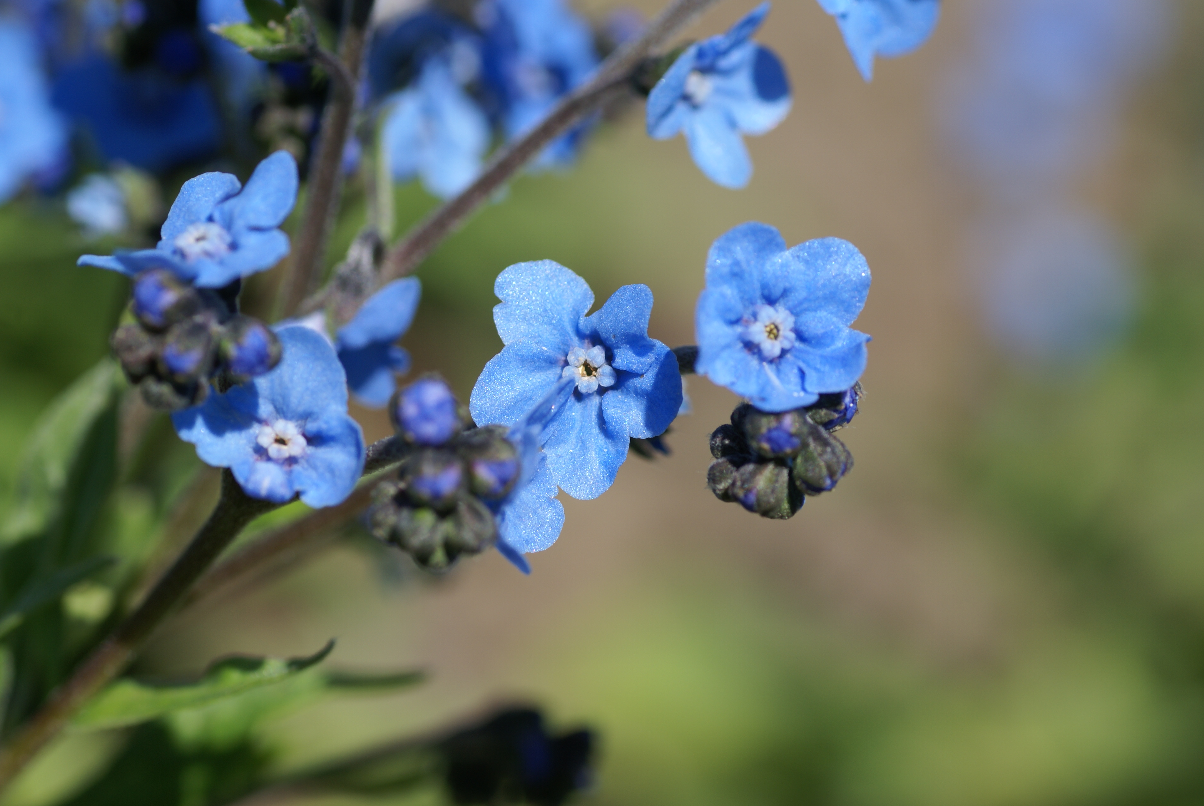 Plant species Eritrichium canum in Bergianska trädgården in Stockholm, Sweden